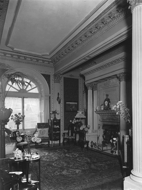 Entrance hall, H. Montagu Allan house, "Ravenscrag", Montreal, QC, 1902 (Photograph); 1902, 20th century; Silver salts on glass - Gelatin dry plate process; 25 x 20 cm; Purchase from Associated Screen News Ltd.; II-143396 © McCord Museum